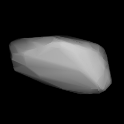 3D convex shape model of 6546 Kaye, computed using light curve inversion techniques. J. Hanuš, J. Ďurech, M. Brož, B. D. Warner (June 2011). "A study of asteroid pole-latitude distribution based on an extended set of shape models derived by the lightcurve inversion method". Astronomy and Astrophysics 530: A134. ISSN 0004-6361. arXiv